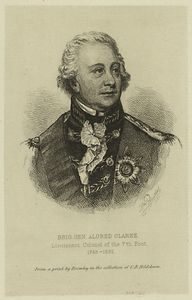 got image from